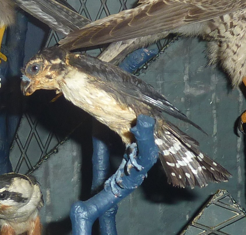 Black-thighed Falconet (Microhierax fringillarius)